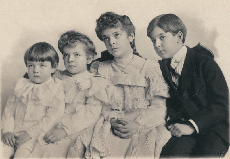 Photograph of August A. Busch children